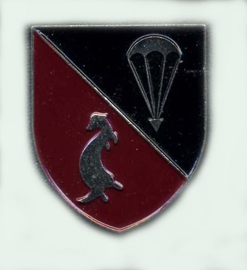 (Internal) coat of arms Fallschirm-Panzerabwehrbataillon 283 (FschPzAbwBtl 283) of the Bundeswehr (Armed Forces of the Federal Republic of Germany). → Remarks on naming and categorization scheme